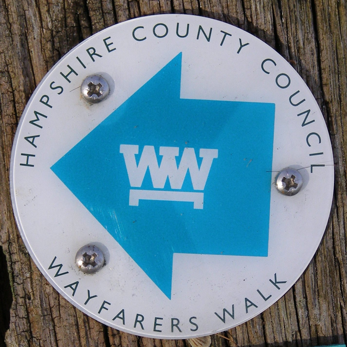 Typical route marker for the Wayfarers Walk long-distance footpath, attached to a post near Preshaw Wood, Hampshire.